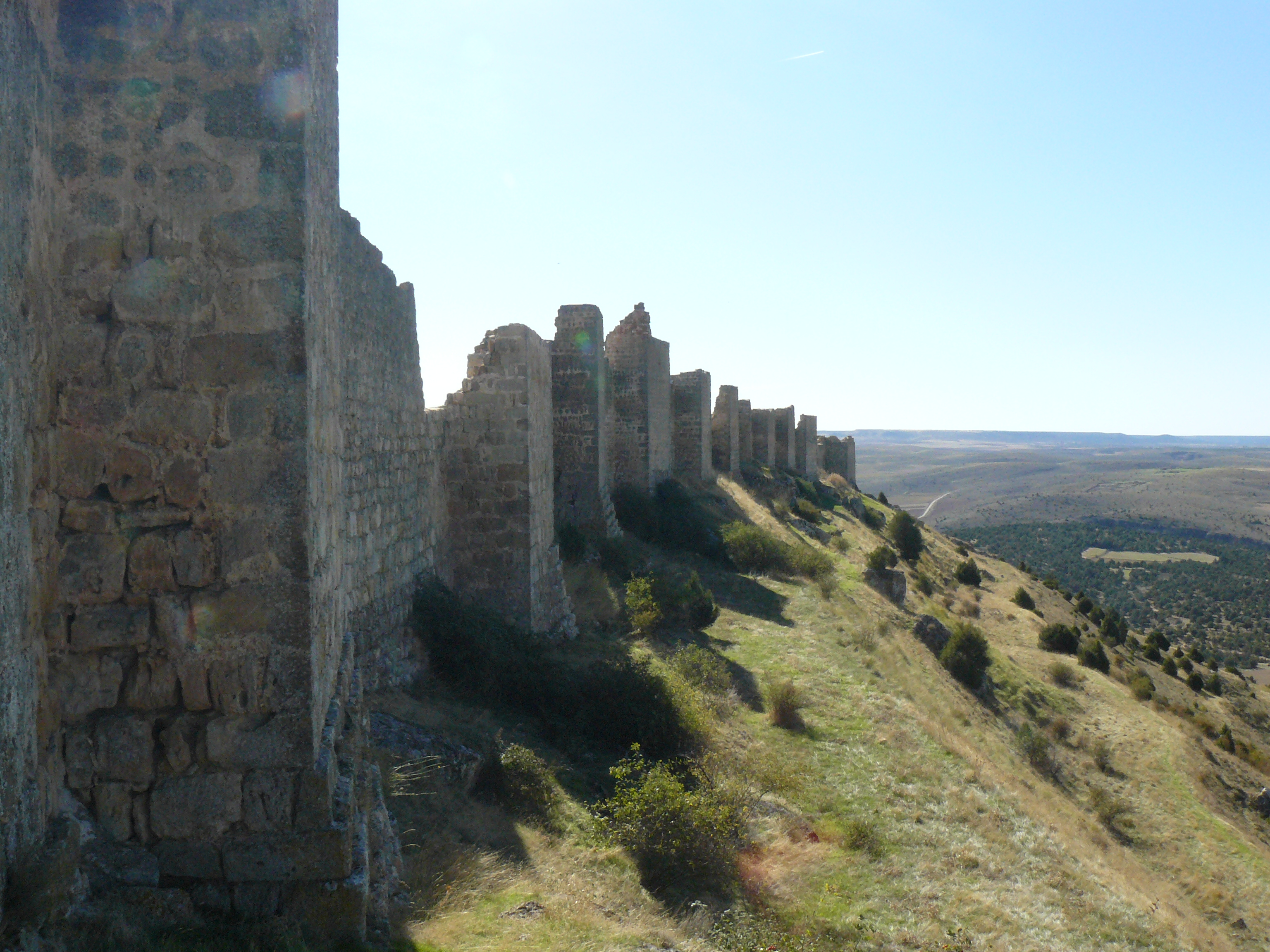 Moor castle at Gormaz, northern view.